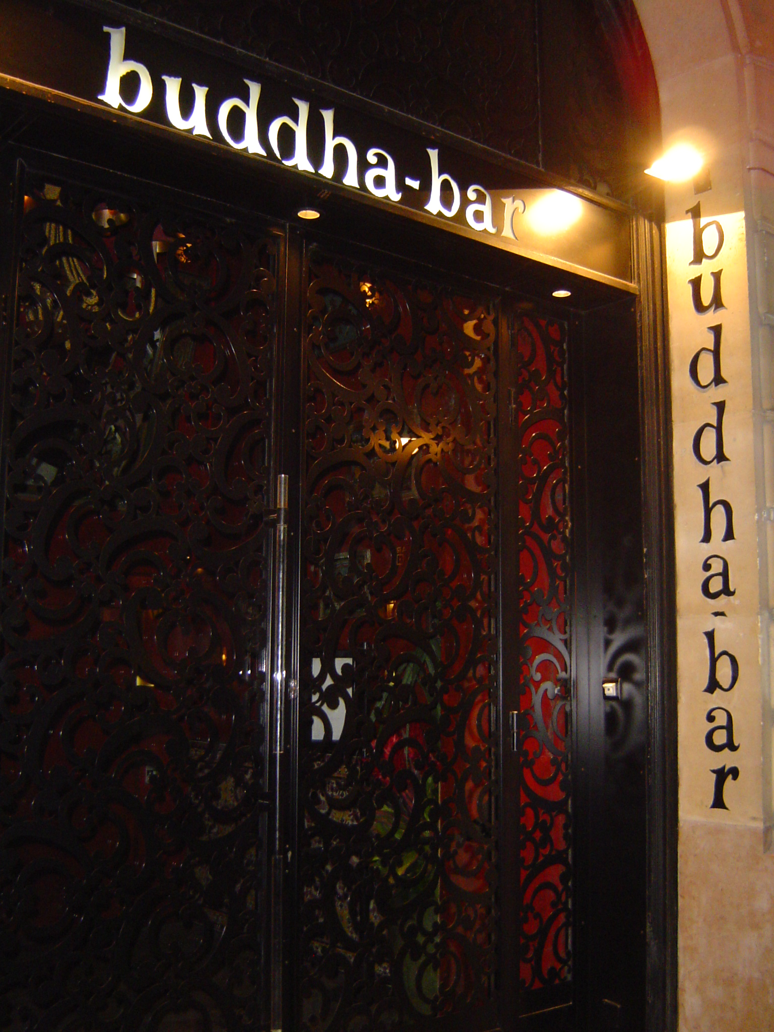 Front door of the Buddha Bar in Paris